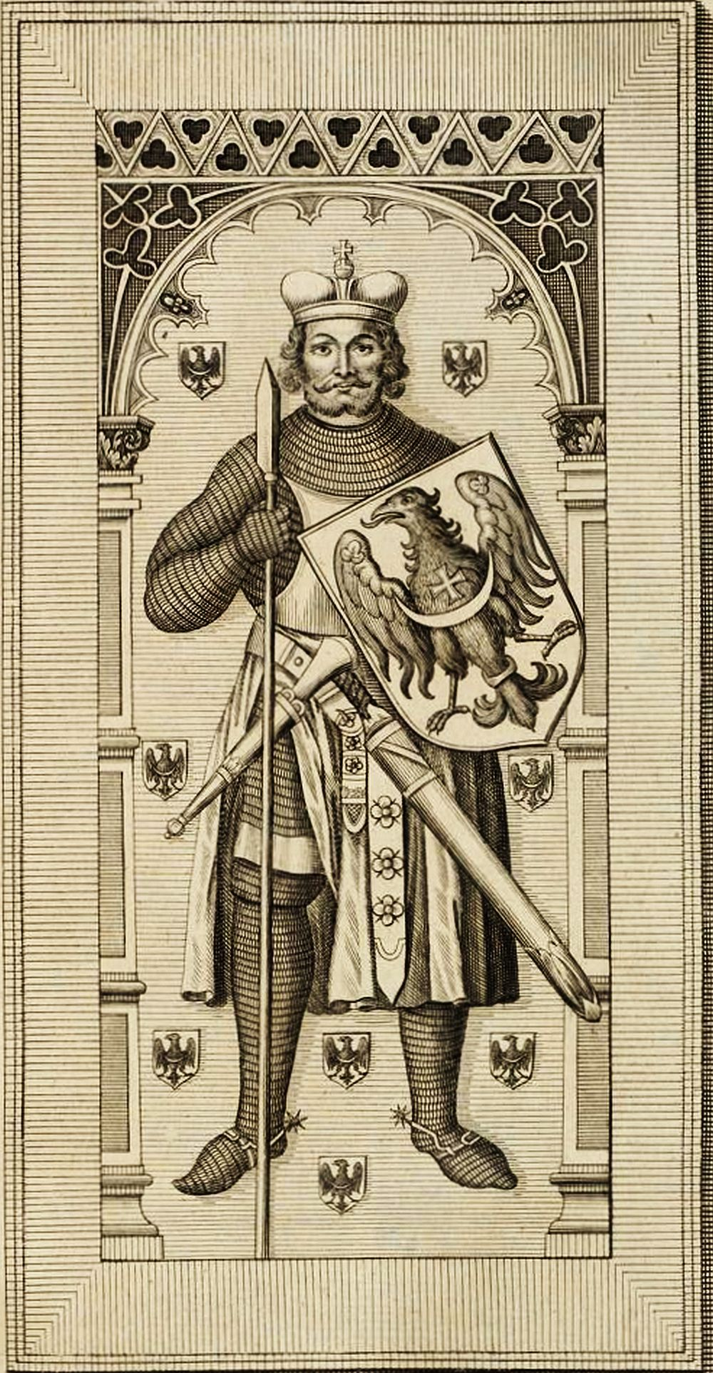 Bolesław I the Tall (1127-1201), Duke of Silesia